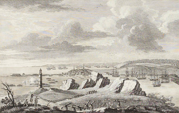 A View of Louisburg in North America, November 11, 1762. This image depicts the city of Louisburg in the background, Gabarus Bay, the English Camp, the French Fleet, the Island Battery and the Lighthouse can beseen on the left. Captain Ince. Thomas Jefferys. Peter Winkworth Collection. Library and Archives Canada, e000943143